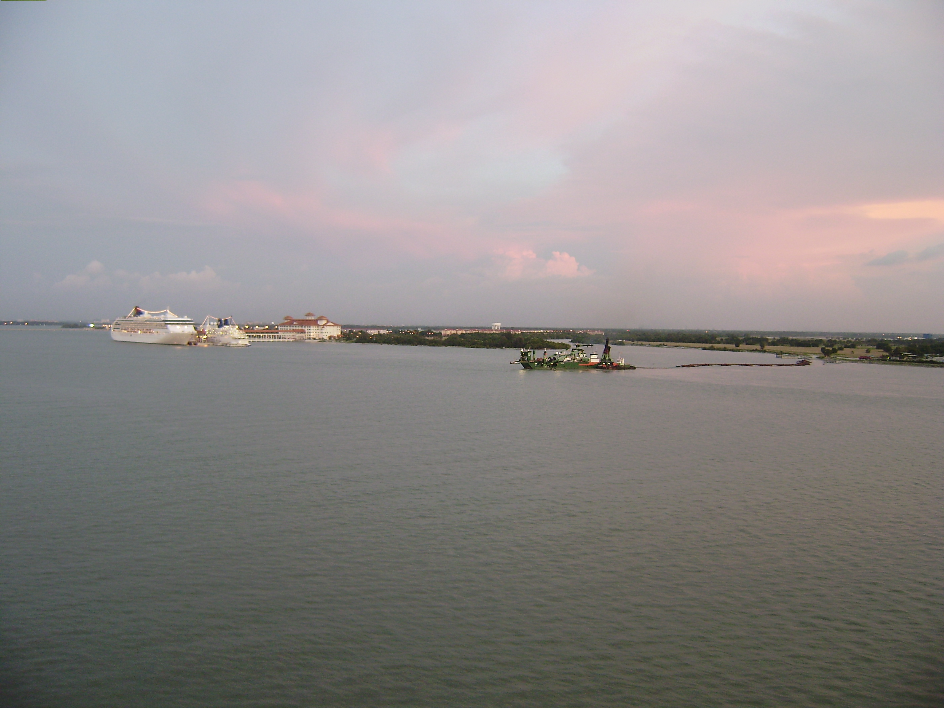 West Port, Malaysia#Star Cruises Terminal